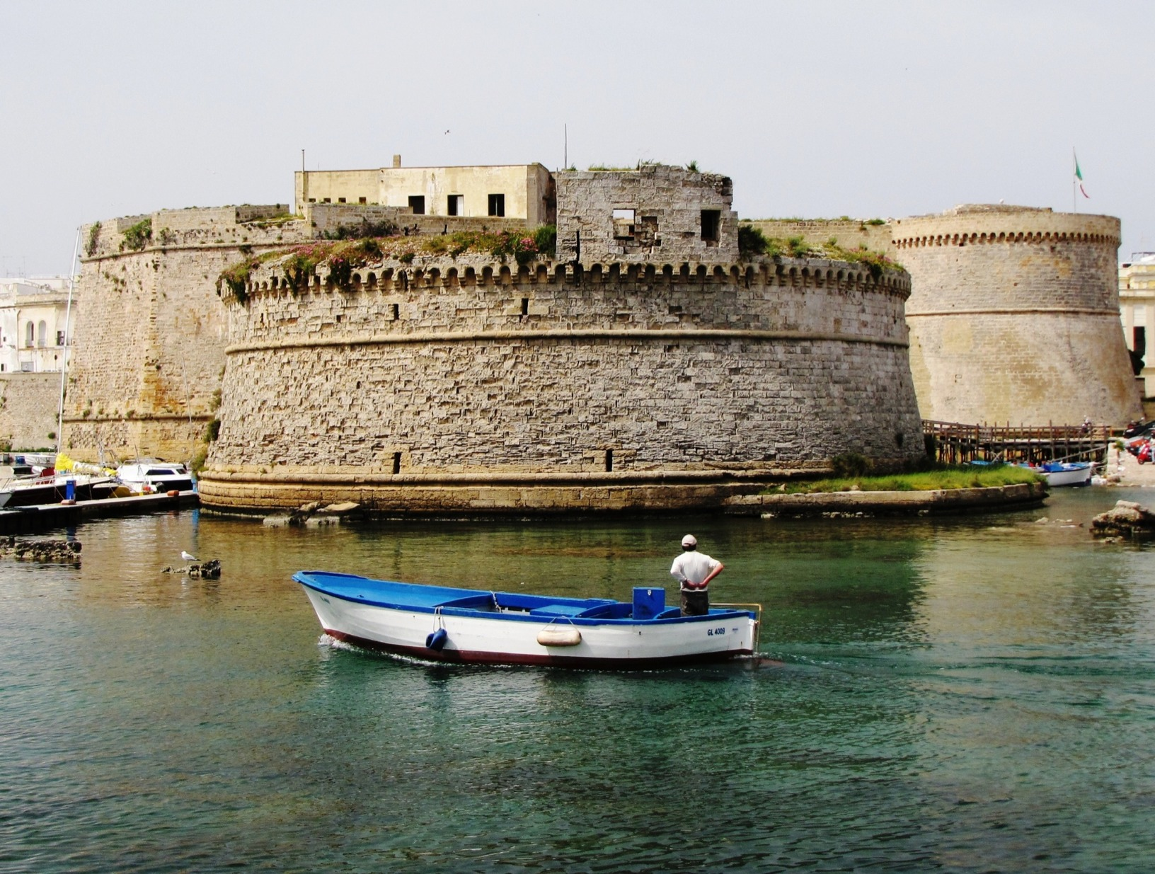 Aragonese Castle in Gallipoli